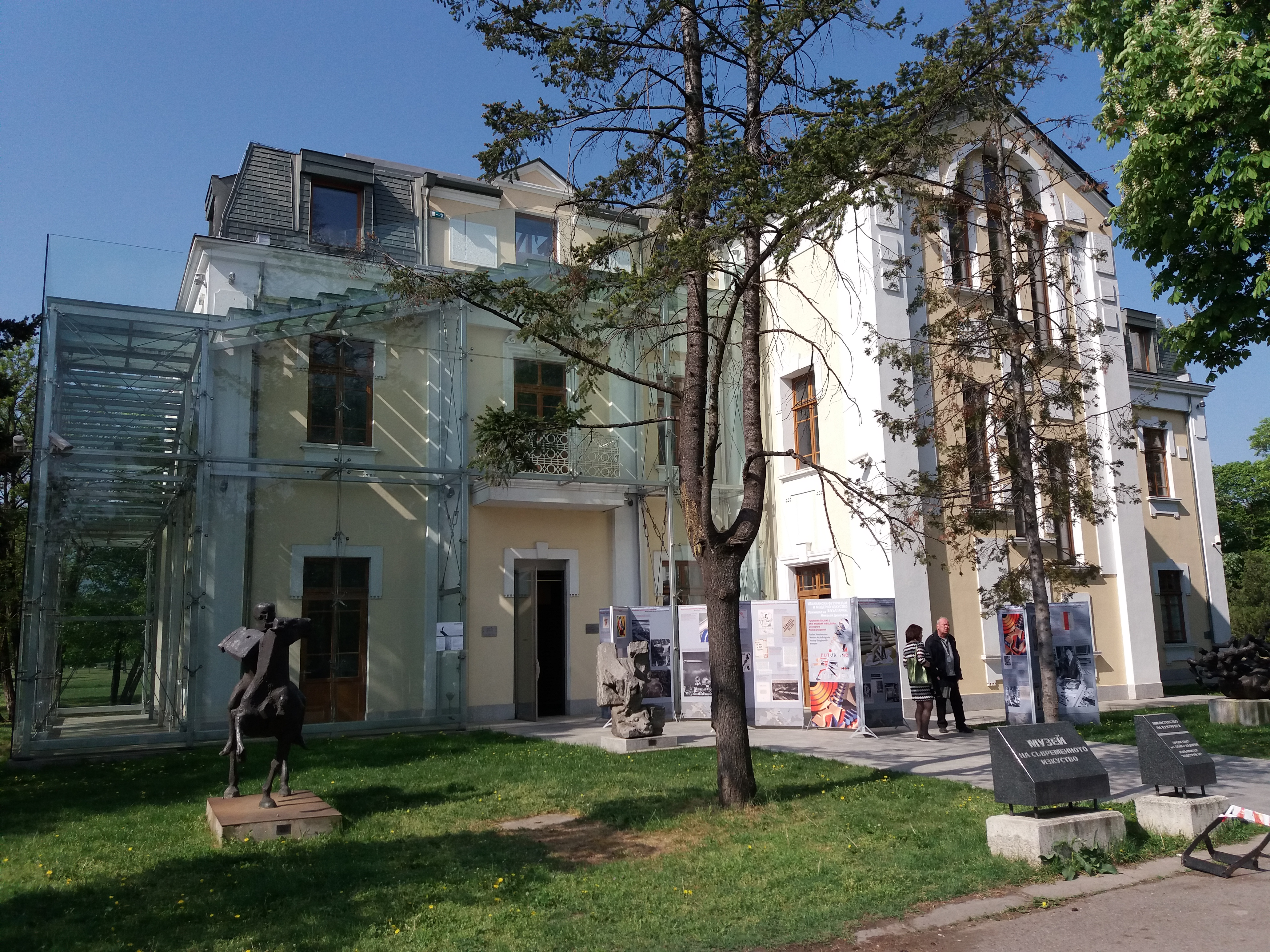 Museum of Contemporary Art - Sofia Arsenal Front facade